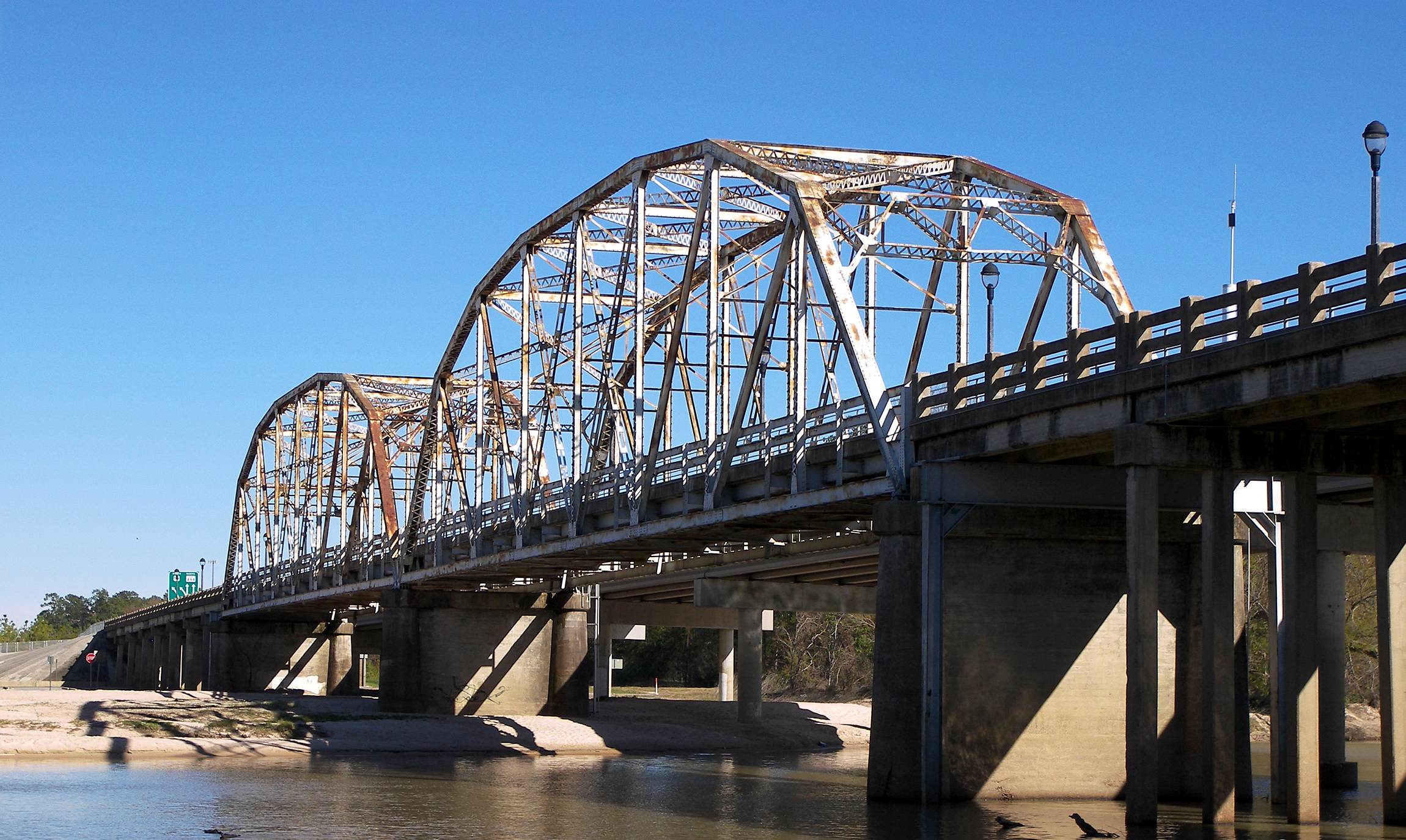 The State Highway 35 Bridge at the West Fork of the San Jacinto River near Humble, Texas, United States. The bridge was listed on the National Register of Historic Places on October 10, 1996.